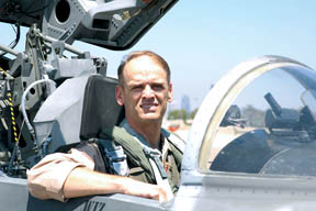 VADM Kilcline in F-5 Cockpit